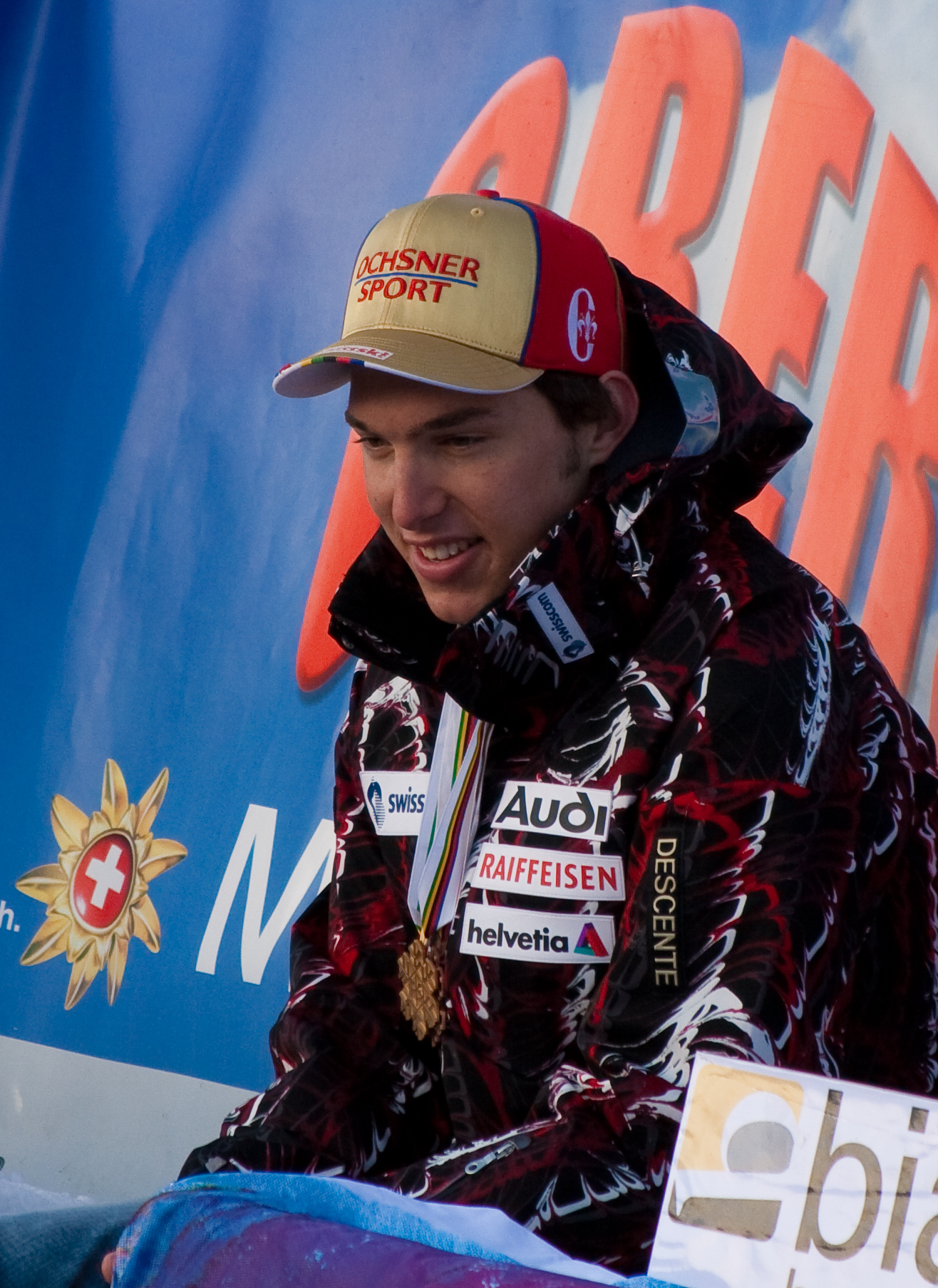 Gold medallist Carlo Janka during the welcome ceremony after his victory at Val-d'Isère 2009 in his home village (Meierhof/Obersaxen).